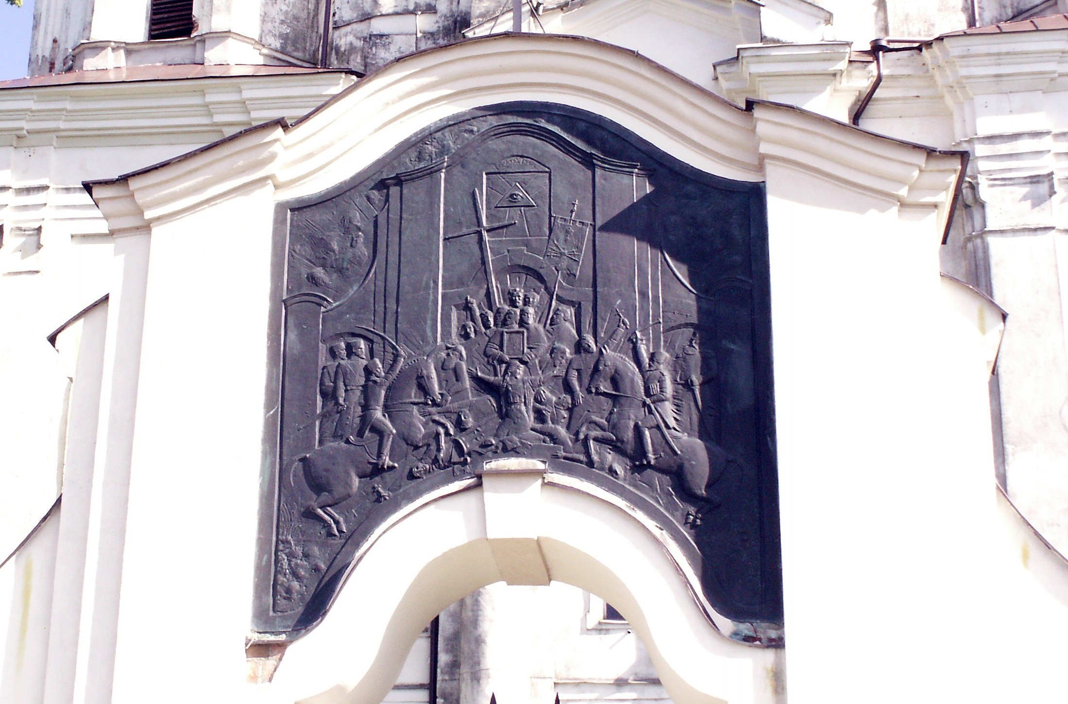 Kražiai church